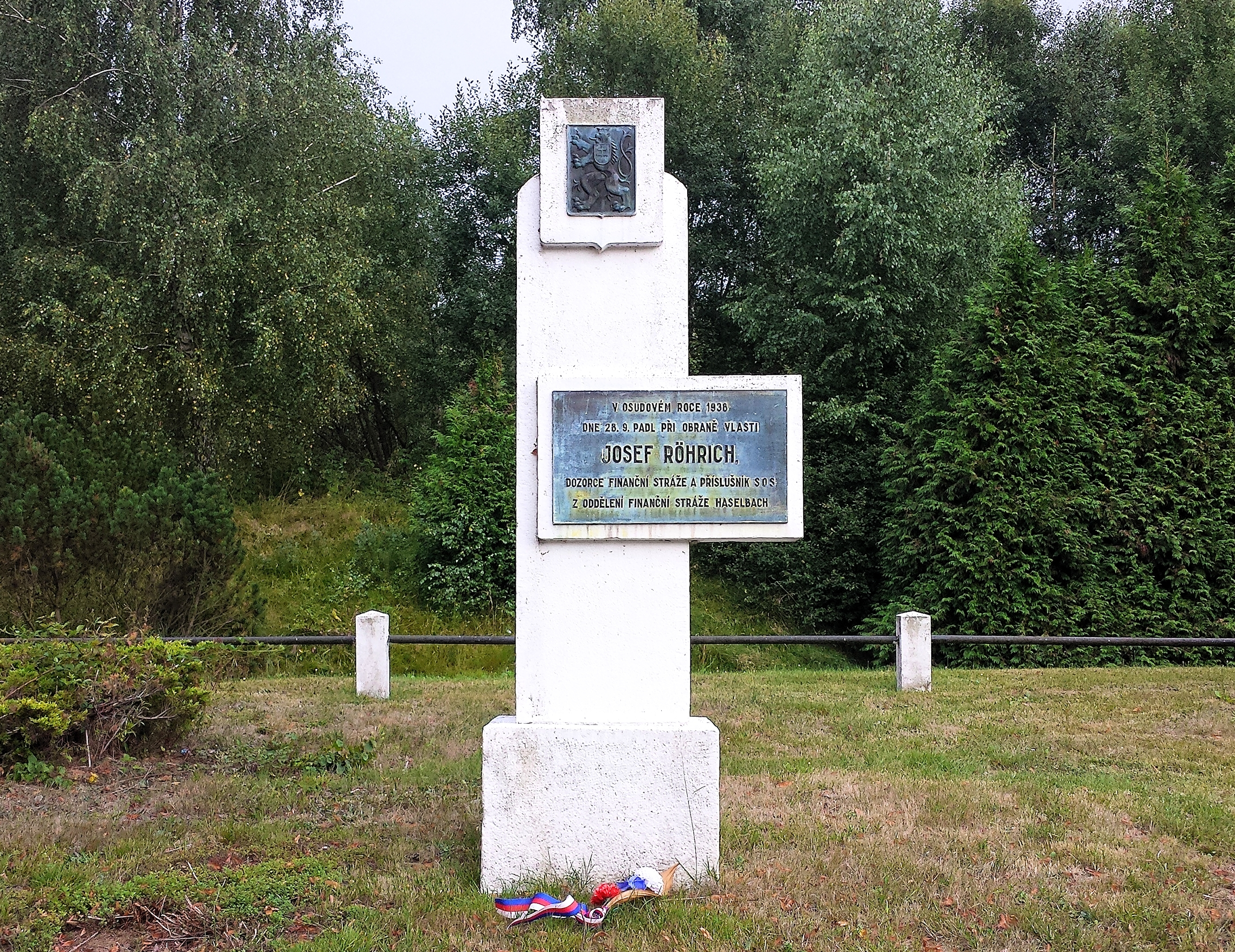 Monument in Dolní Podluží commemorating Josef Röhrich, member of the Czechoslovak Finance Guard, killed by the Germans on 28 September 1938 (Plzeň Region, Czechia).